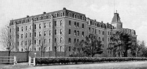 Front side of St. Mary's Industrial School